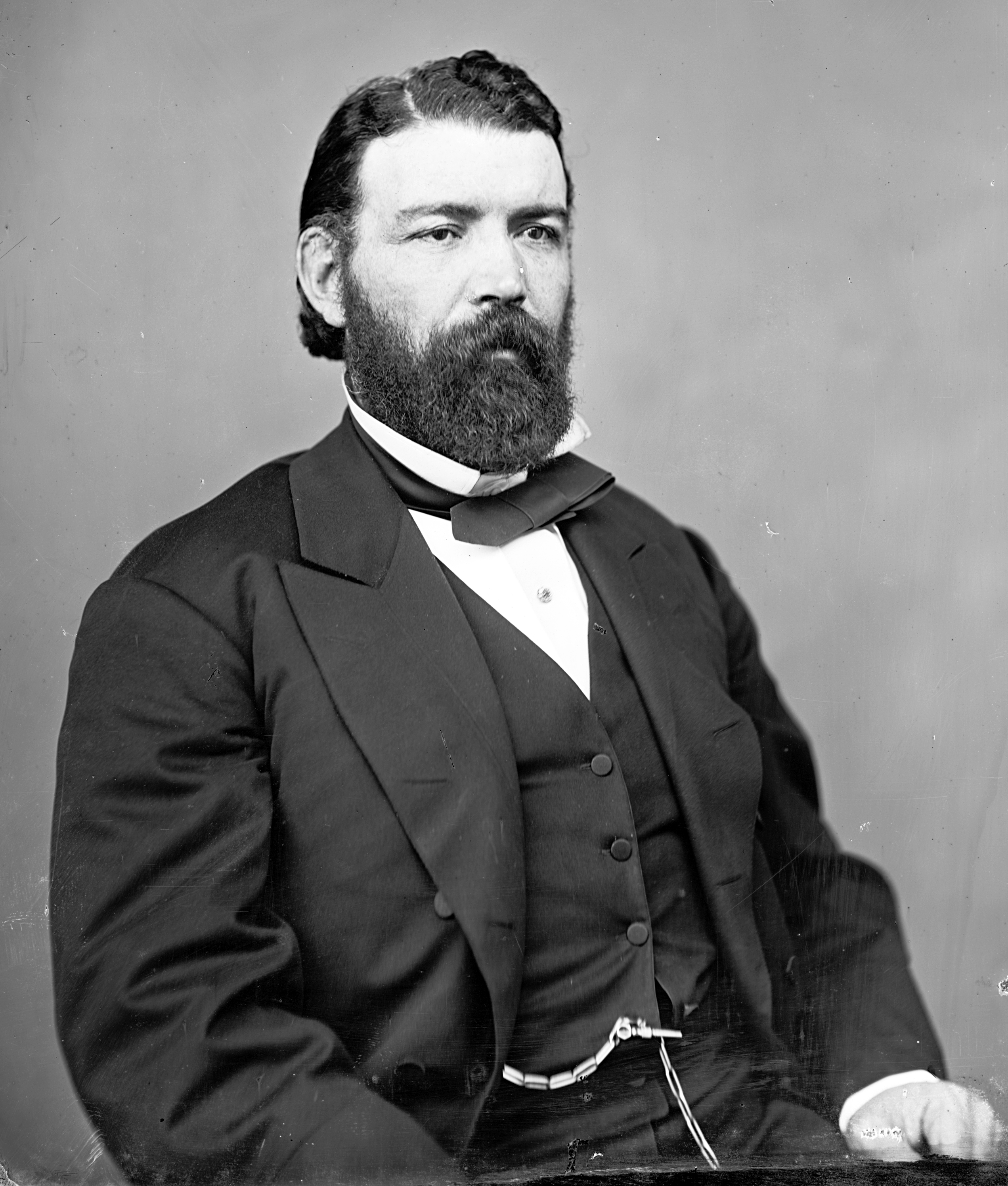 John Morrissey, US Representative from New York